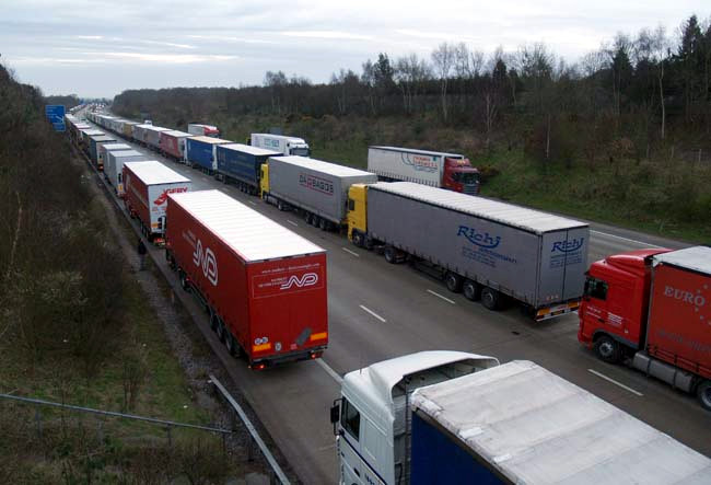 Operation Stack being implemented on the M20 motorway near Dover